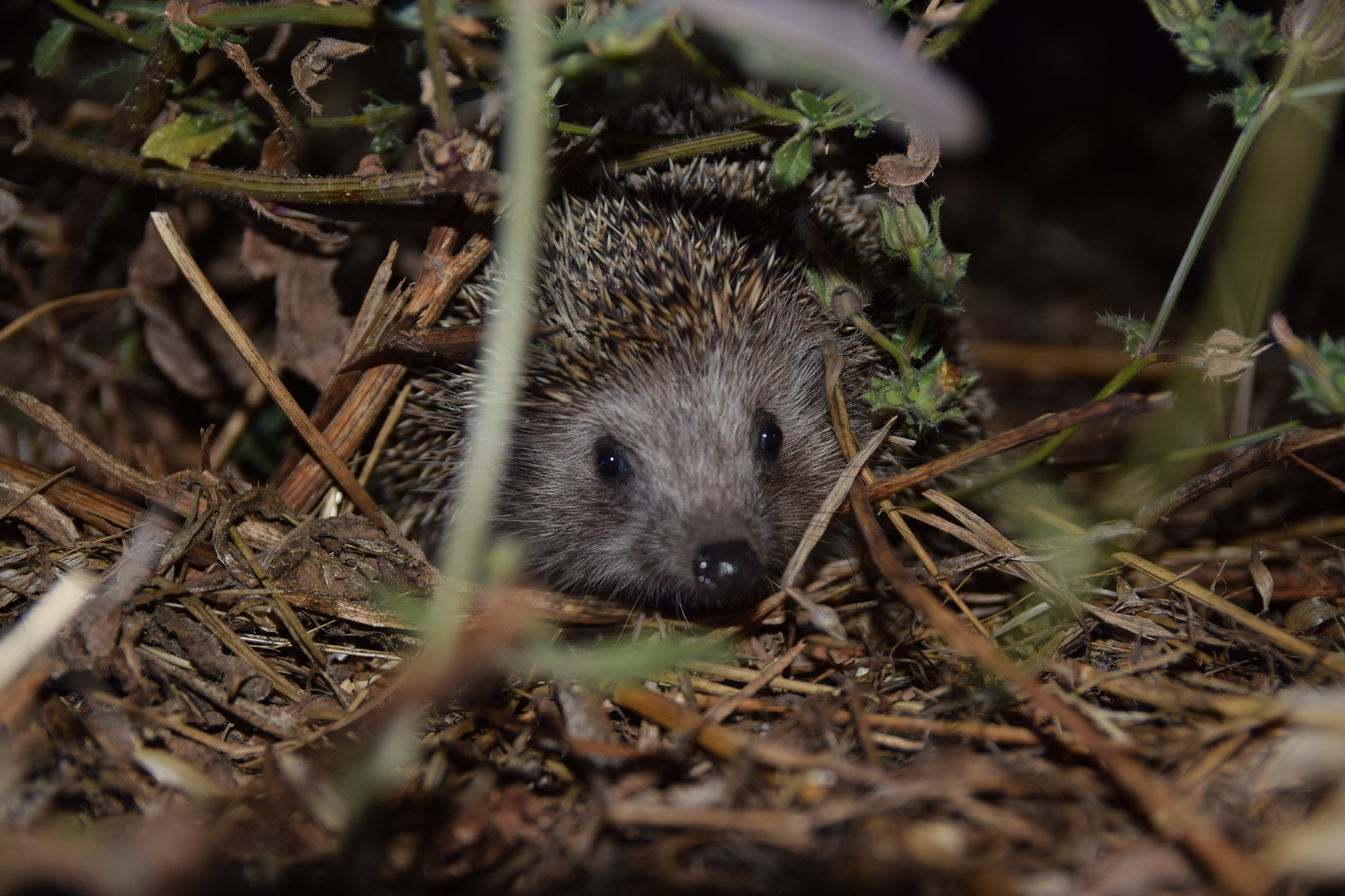 This is a photography of Natura 2000 protected area with ID GR4340006